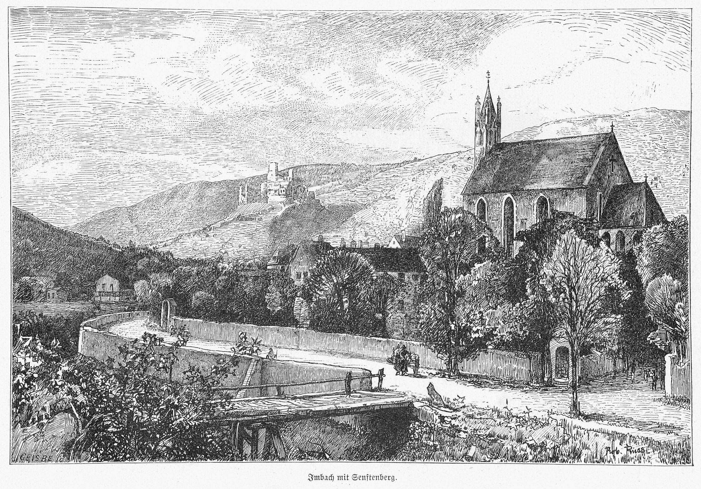 View of the monastery Imbach with the ruin Senftenberg in the background, Kremstal, Lower Austria, (Wood engraving 19,3 x 13 cm)